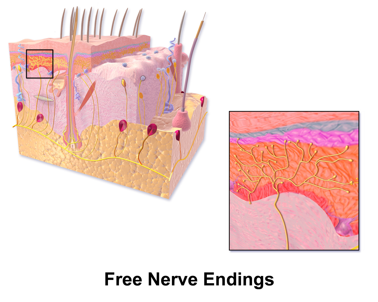 Free Nerve Endings. See a full animation of this medical topic.